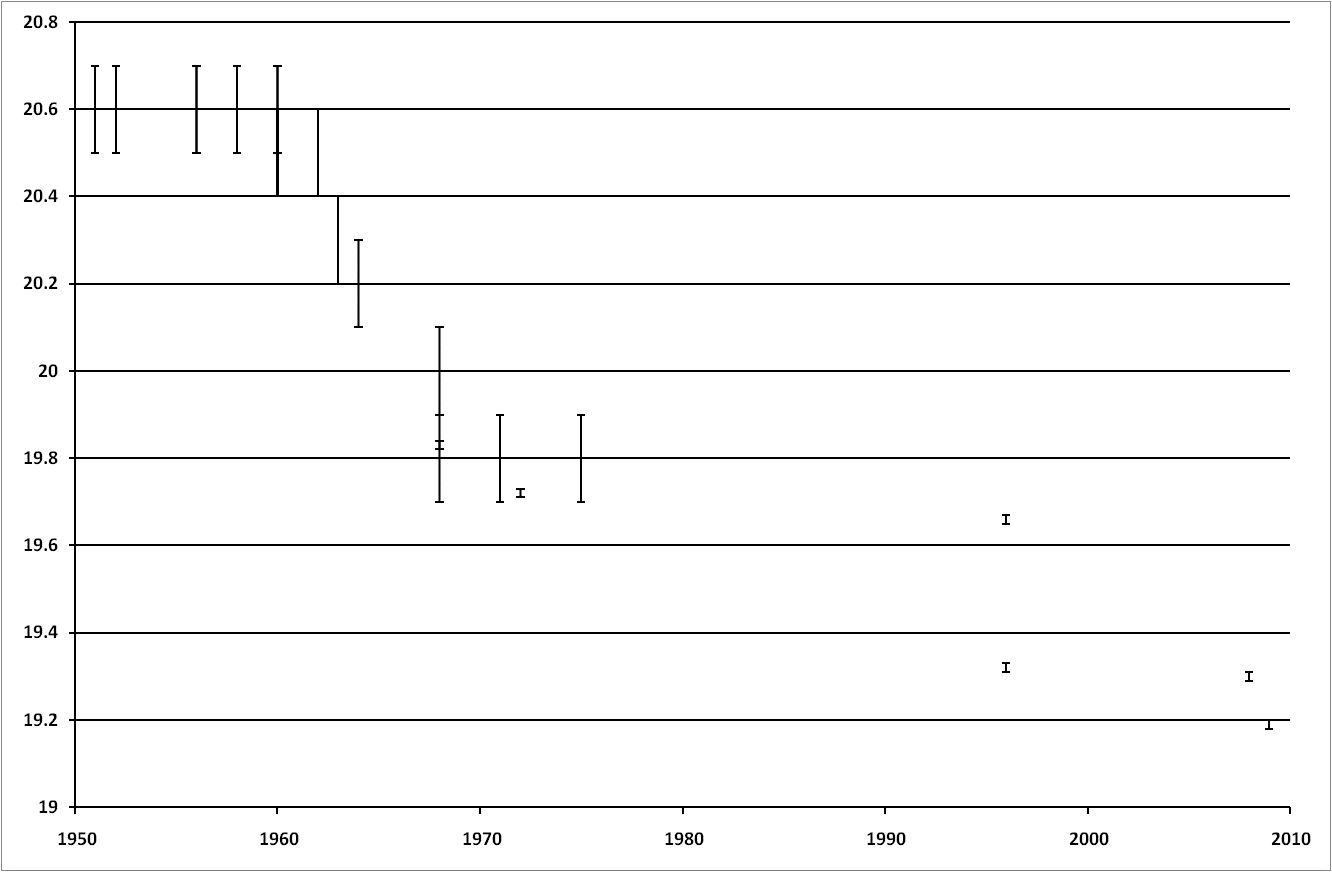 Mens 200m WR progression